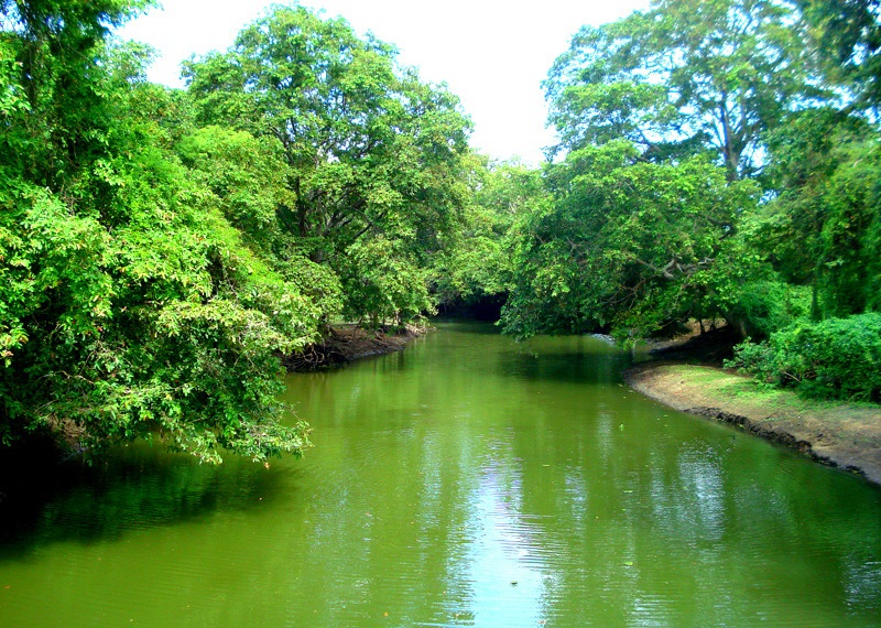 There are 103 radially draining rivers originating mainly in the central hill country of Sri Lanka.The Malwatu River or "Oya" (Tamil: Aruvi Aru), is a 164 km (102 miles) long river (the second longest) connecting the city of Anuradhapura to the coast of Mannar. "Ritigala" Mountain which is the watershed of the Malwatu Oya is 766 m above the sea-level and the highest mountain in the North Central dry plains of Sri Lanka.